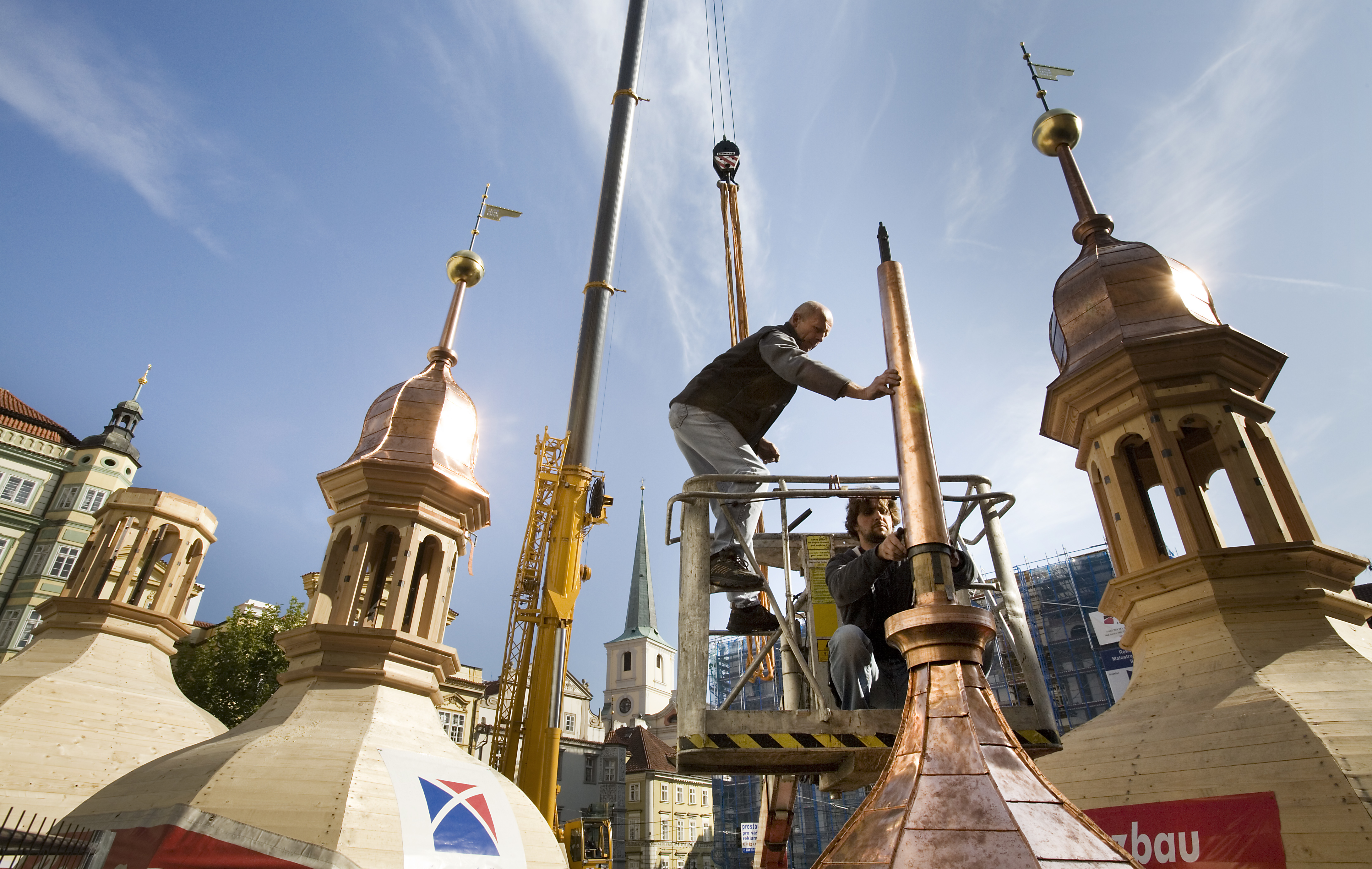 Construction of a new Onion Tower for a Baroque Building Prague